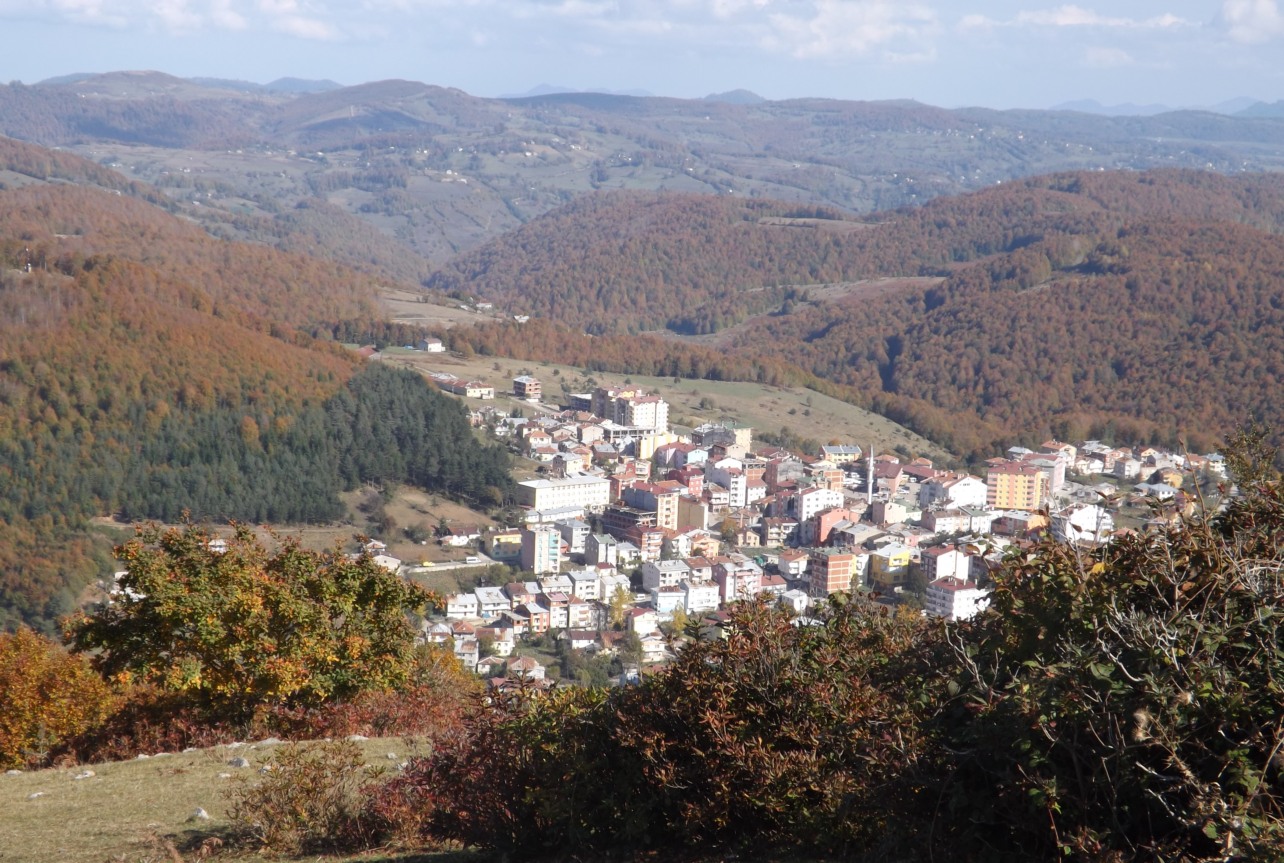 Akkuş